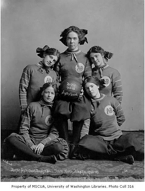 Caption on image: Arctic Sisterhood BasketBall Team, Nome, Alaska, 1908-09. F.H. Nowell, 5758 Subjects (LCTGM): Basketball players--Alaska--Nome; Group portraits Subjects (LCSH): Women basketball players--Alaska--Nome; Young women--Alaska--Nome